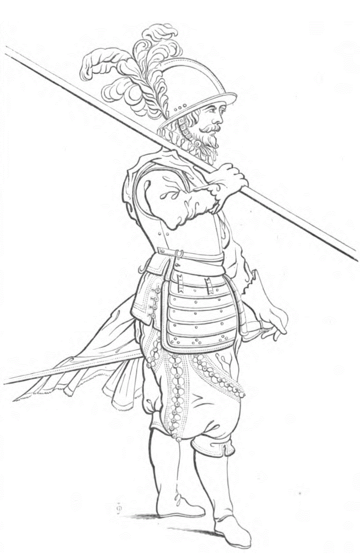 Illustration of a 17th century pikeman from AncientArmour and Weapons in Europe by John Hewitt, 1860.